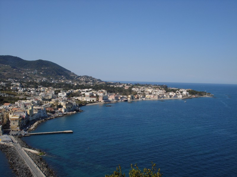 Ischia Ponte (left) and Ischia Porto (right) as seen from Castello Aragonese, Ischia Island, Italy